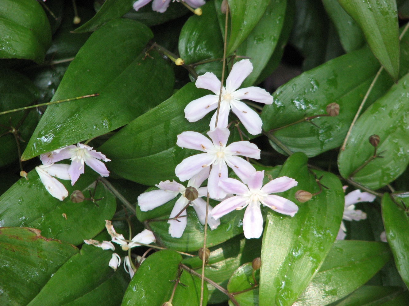 Tripladenia cunninghamii (cultivated, not labelled), Royal Botanic Gardens, Melbourne, Australia